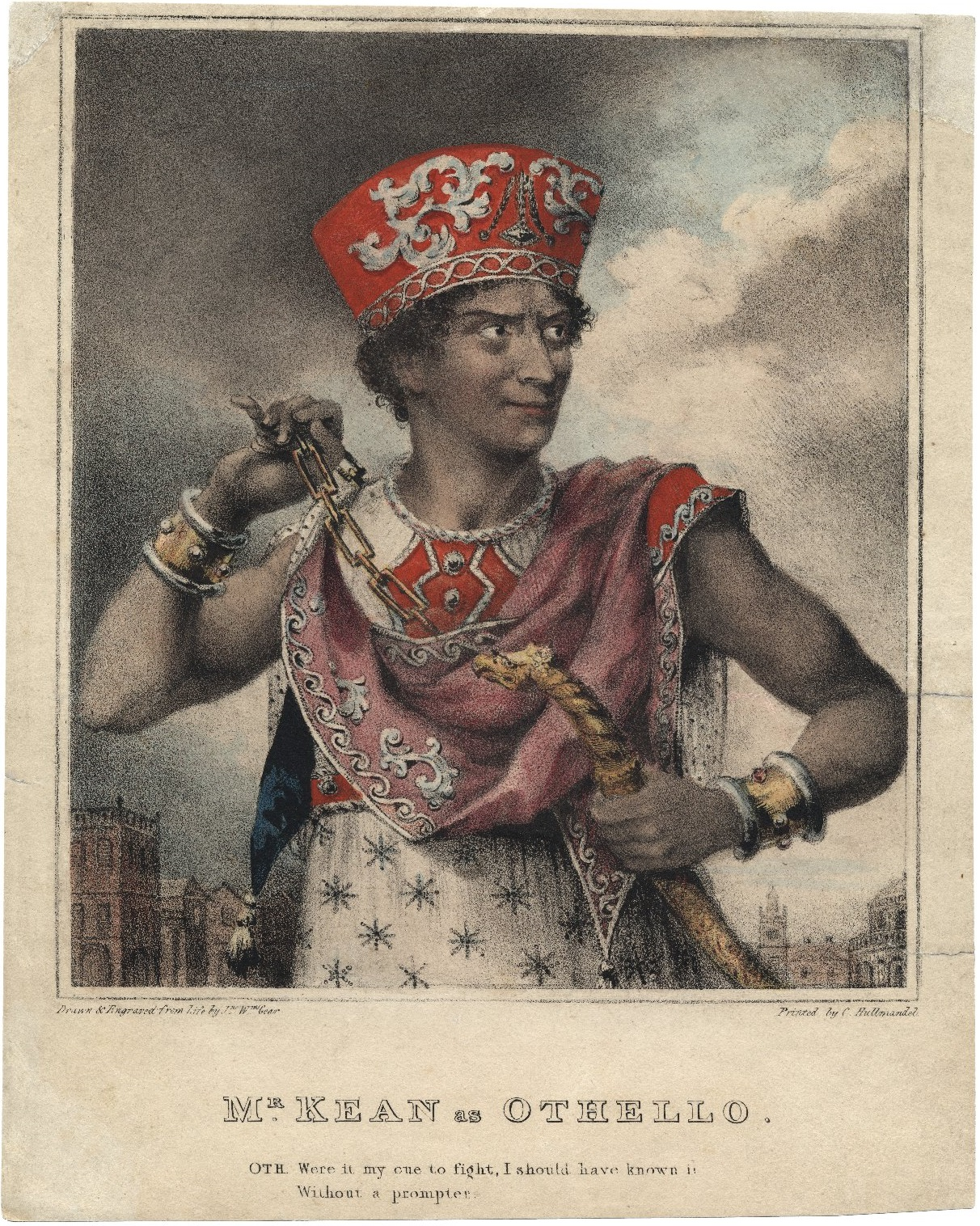 Edmund Kean as Othello